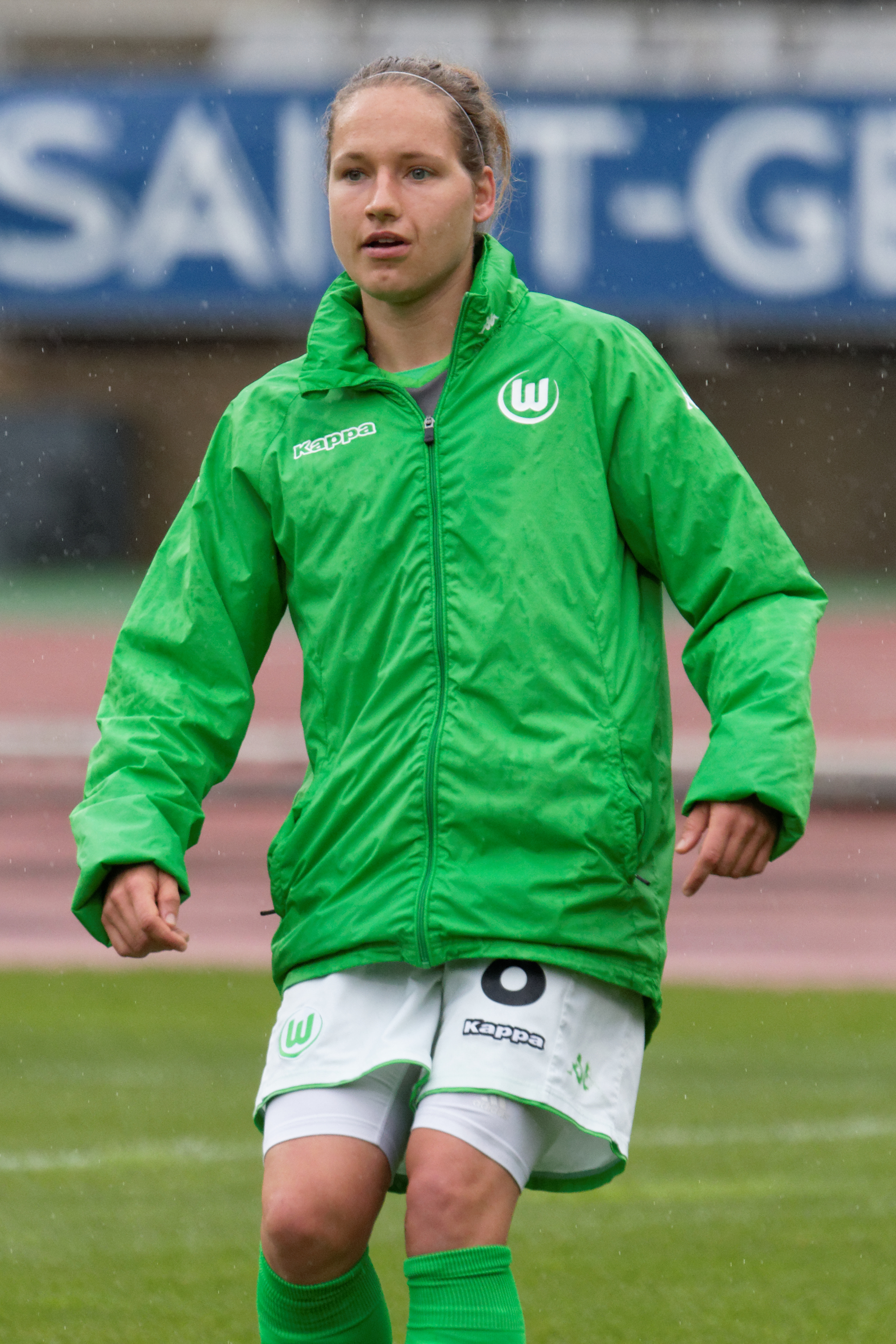 UEFA Women's Champions League, PSG - Wolfsburg, 26 April 2015.